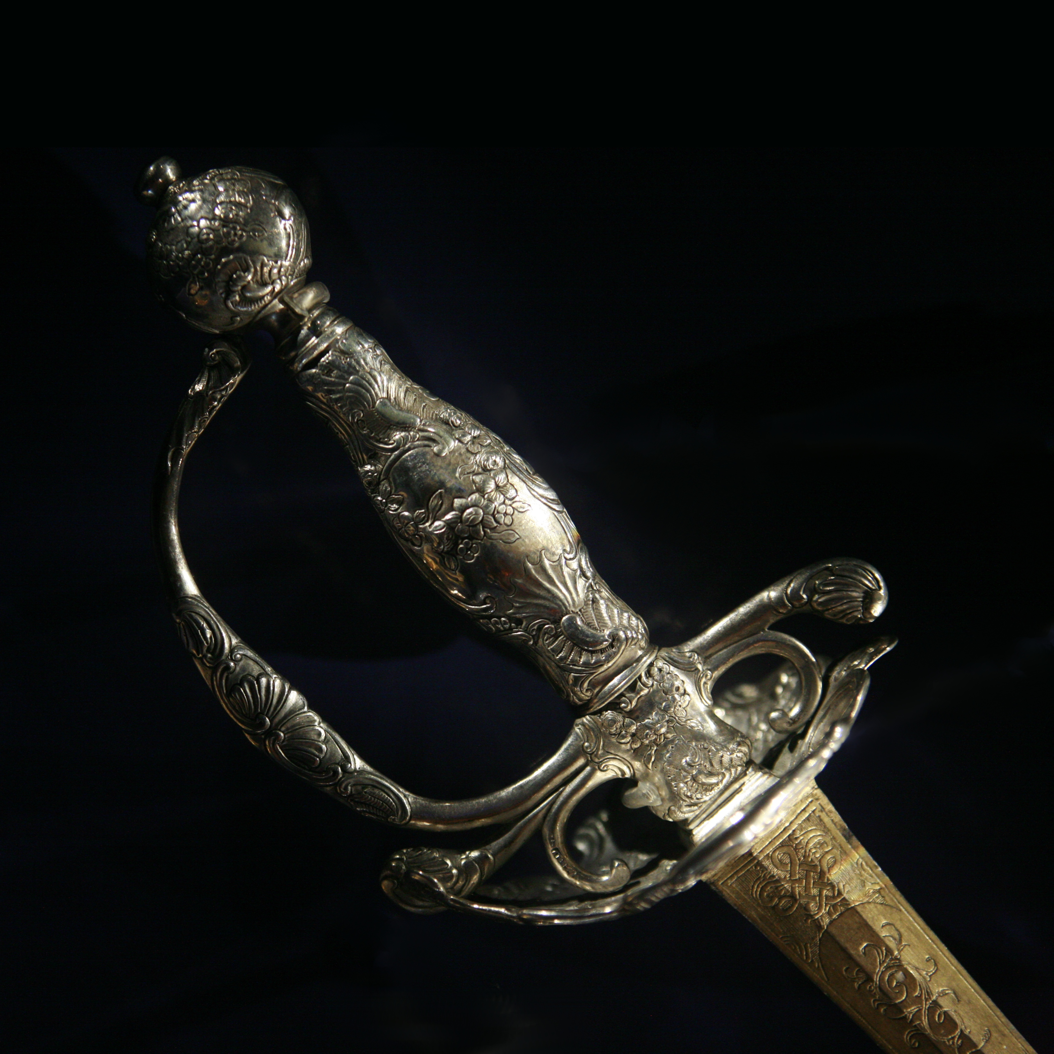 Smallsword in musketeer style, c. 1765. Made by Master J.F. Senckeysen and J.J. Dörfer in Strasbourg. Steel, leather, various fabric, and silver guard and handle